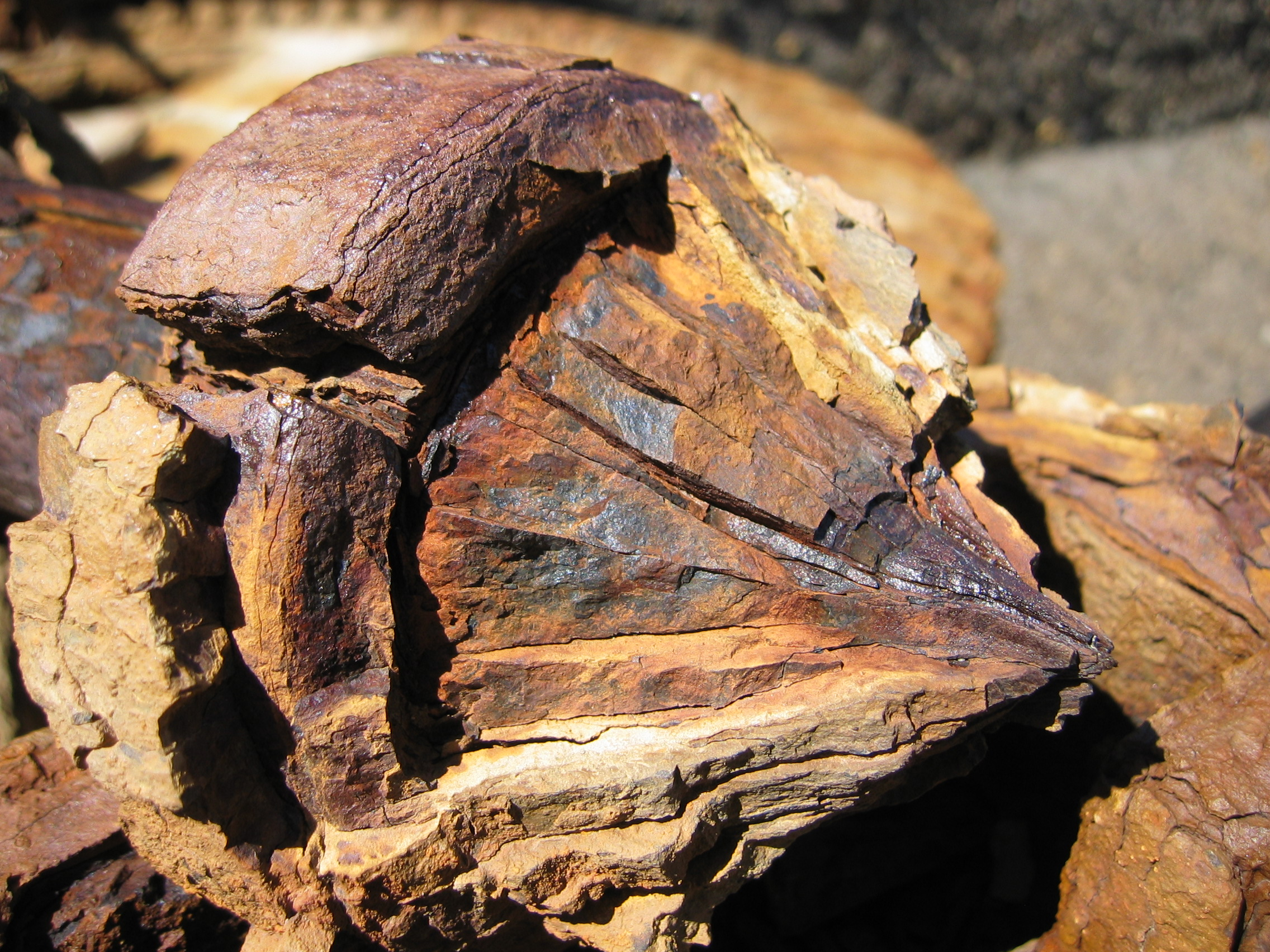 Corroding iron machinery at the White Island sulphur mine, abandoned after a lahar killed all the workers in 1914.